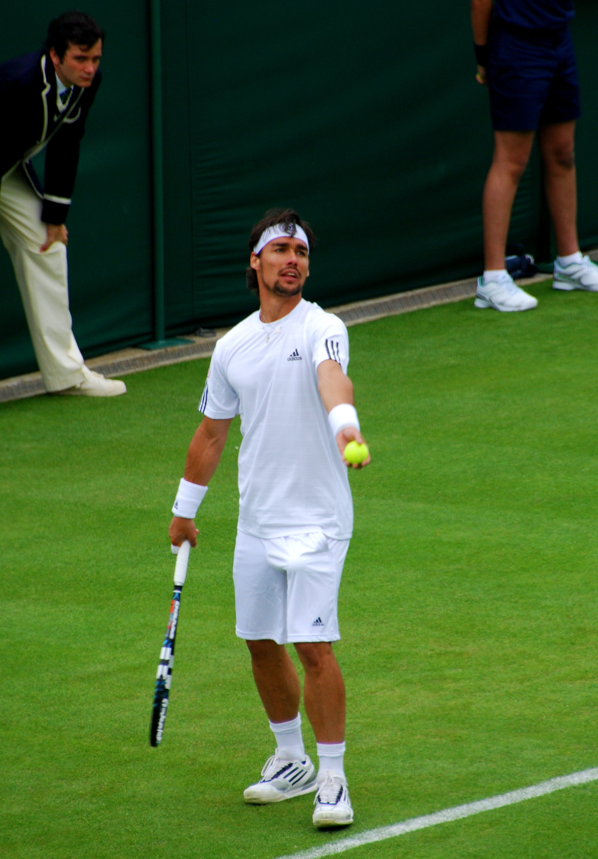 Fabio Fognini serves at Wimbledon 2013.